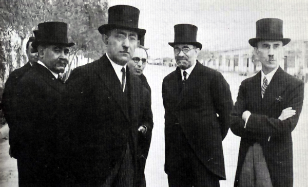 From right: Ali Mansur, Mohammad Ali Foroughi, MustafaQoly Bayat, Ali-Akbar Davar, and Mahmoud Djam